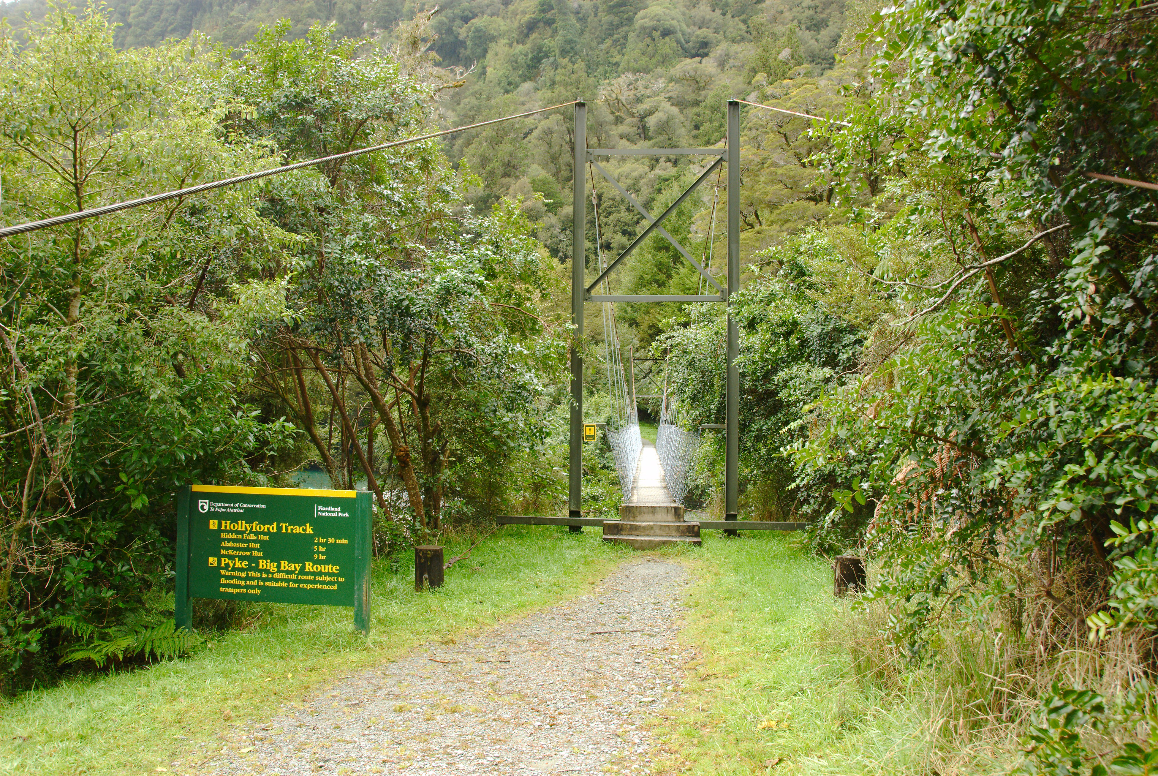 The Hollyford River end of the Hollyford Track The track starts with that bridge at the road end of the Lower Hollyford Road